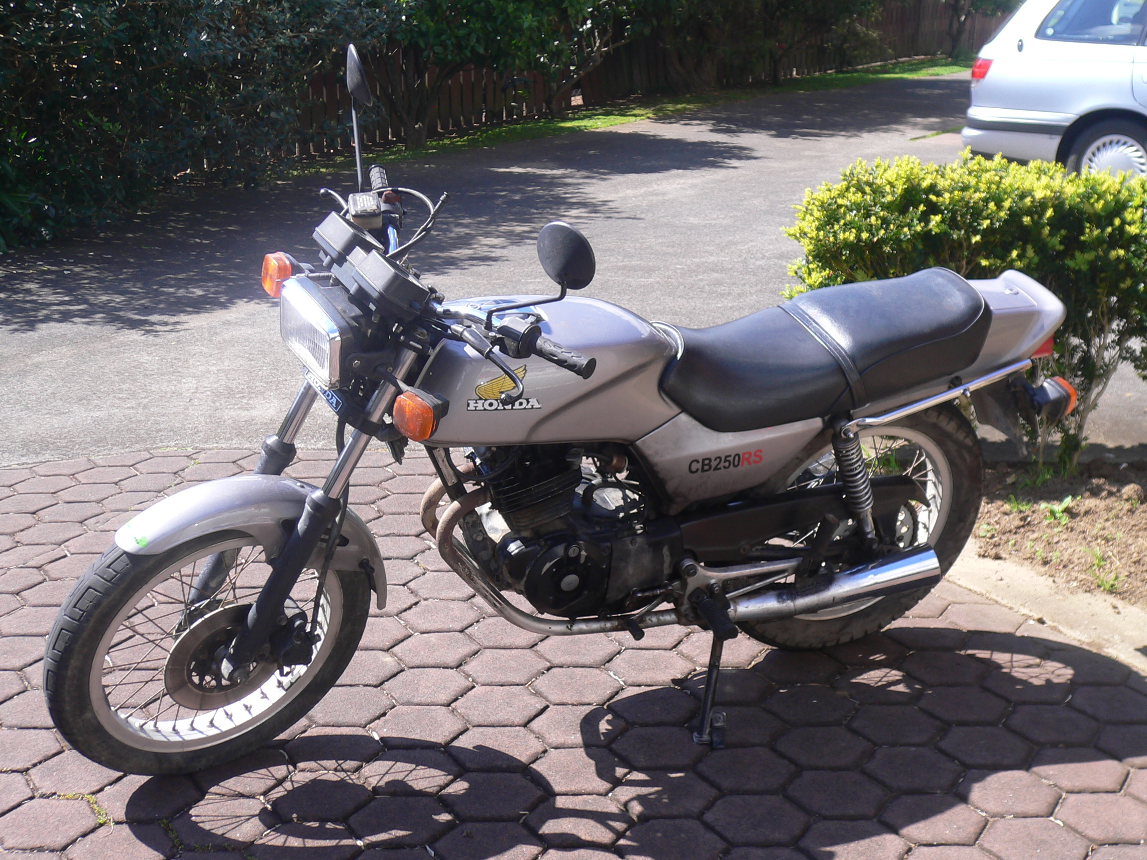 By Tom Cornall, photo of my 1984 Honda CB250RS.